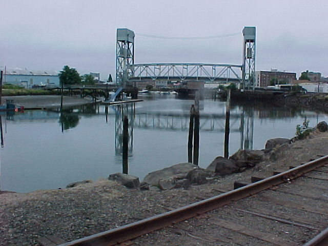 Riverside Avenue Bridge, Hoquiam, Washington. This bridge connects one part of Hoquiam with another, over the Hoquiam River.